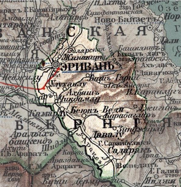 Uyezd of Erivan